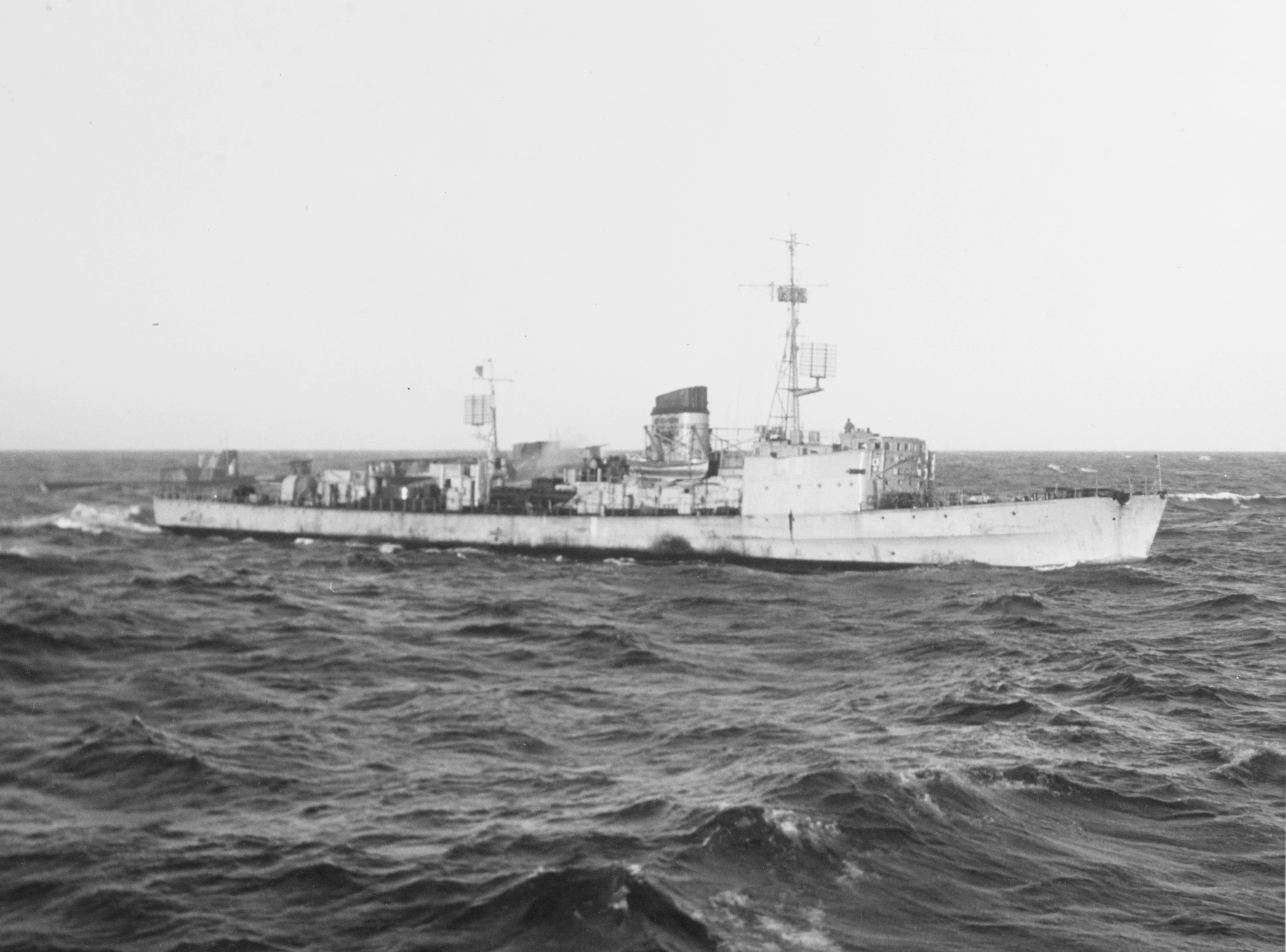 The German Torpedo Boat T 21 at sea on 2 July 1946, en route from Nordenham, Germany, to be scuttled in the North Sea with a load of German poison gas. Note the submarine beyond her stern.